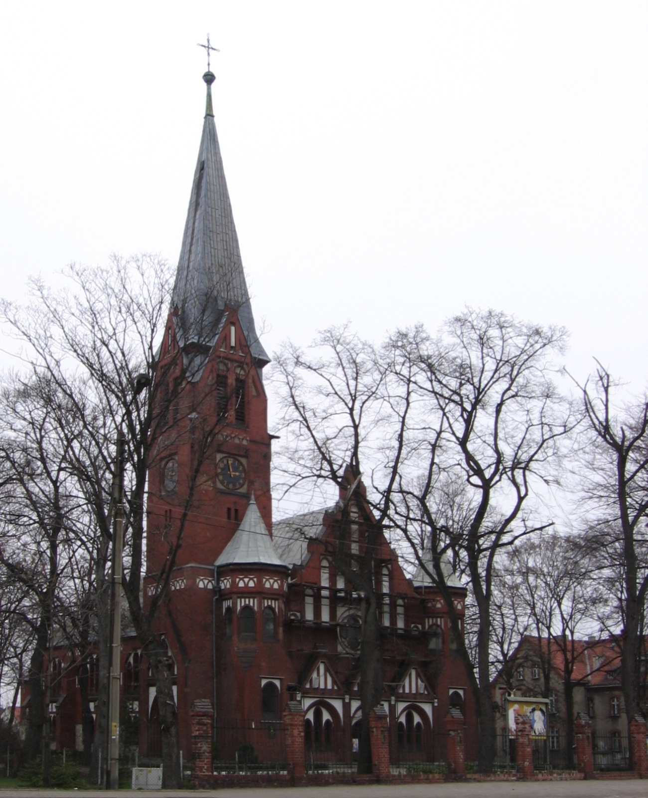 The Holy Mary - Queen of Poland Church in Wrocław-Klecina, Poland